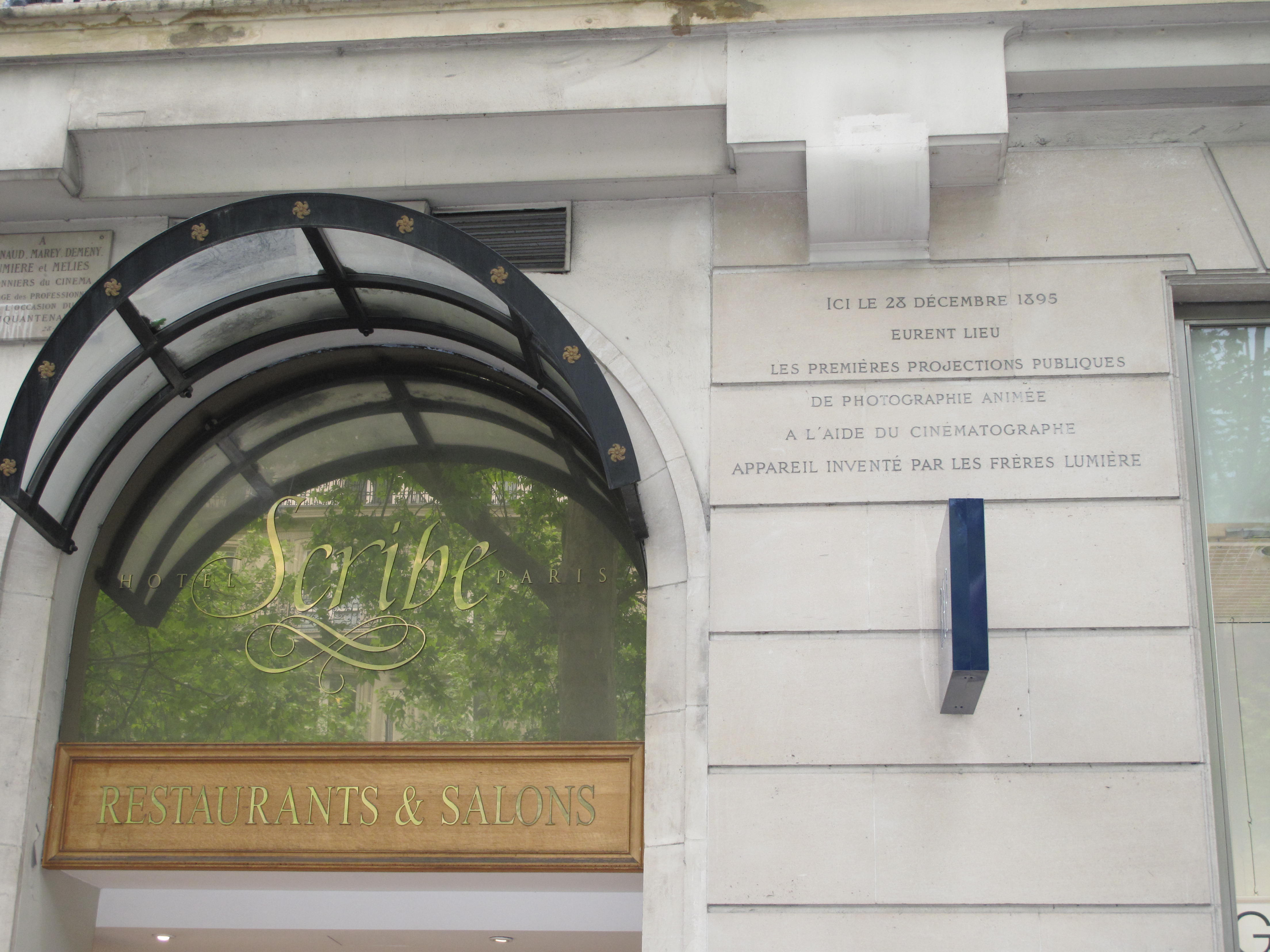 The hotel where were shown the first public movies by Auguste and Louis Lumière in 1895 ; 16, boulevard des Capucines, Paris